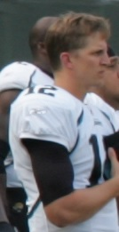 Jacksonville Jaguars quarterback Luke McCown stands on the sidelines during a pregame ceremony. More details at File:Jacksonville Jaguars players in pregame military ceremony, 2009.jpg.